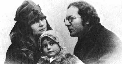 Alter Kacyzne, his wife Khana and their daughter Shulamit